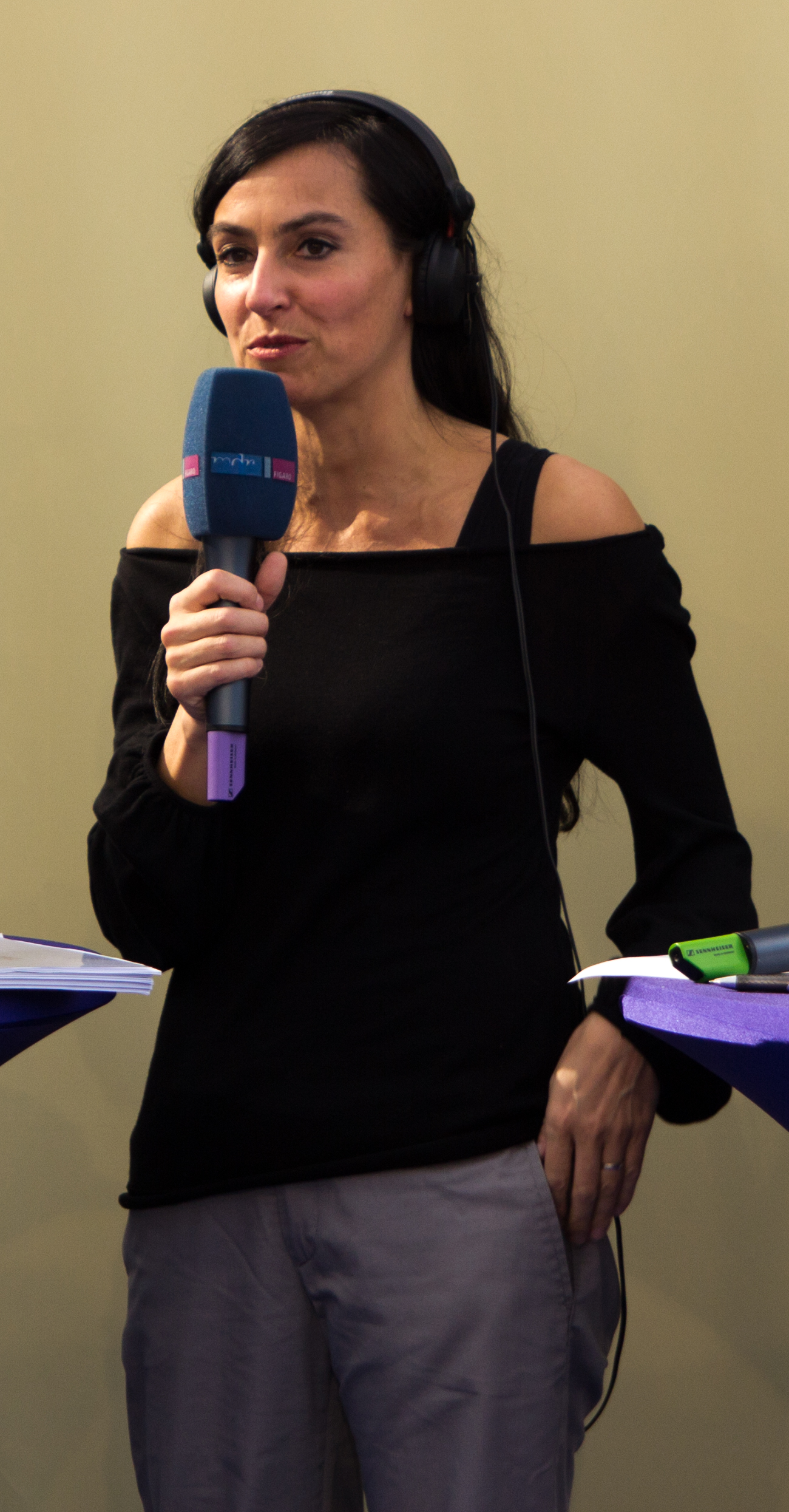 Katharina Saalfrank, German TV-Star